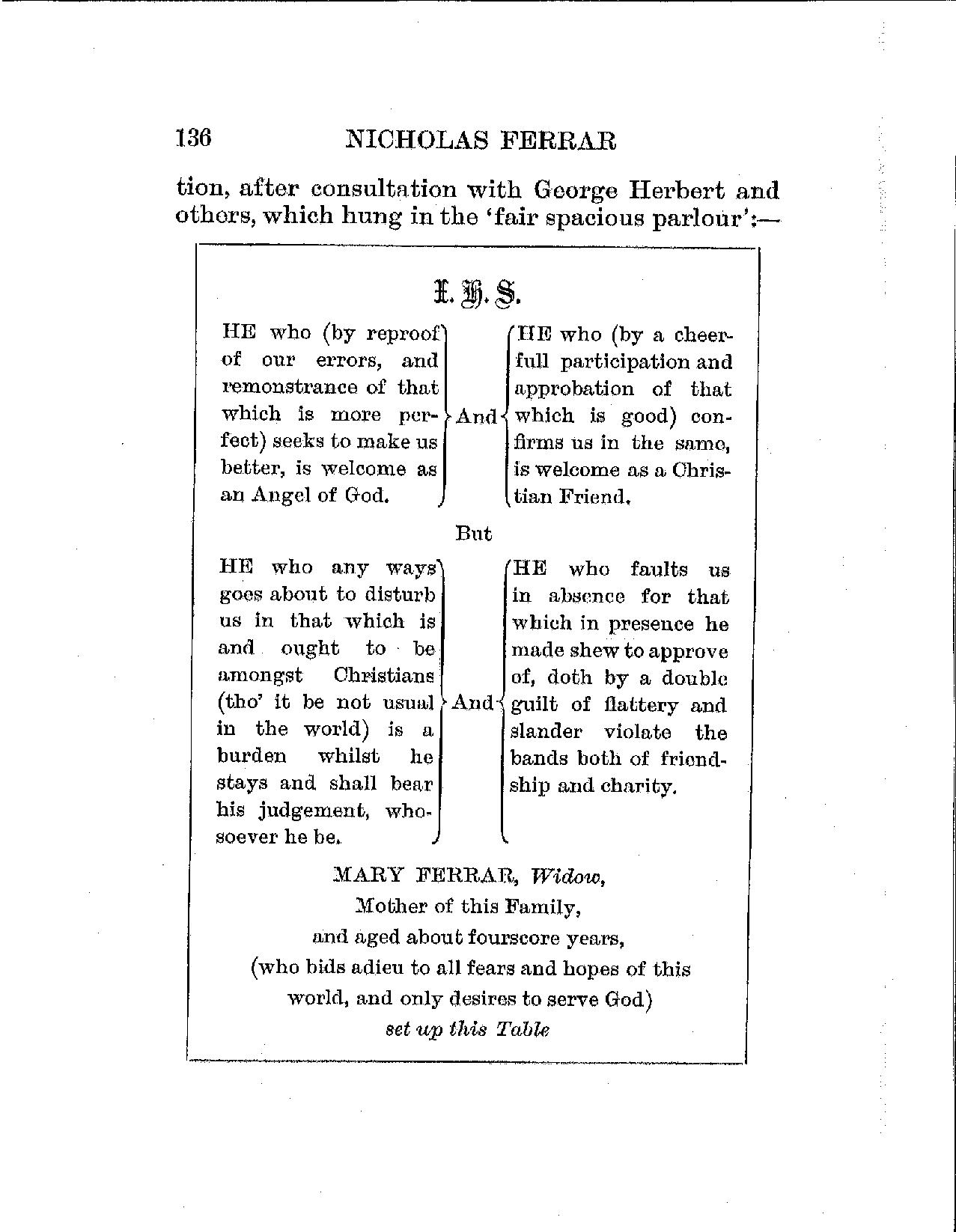 The centrality of a Christ-like life to the Ferrar’s Little Gidding community was reflected in a tablet Mary Ferrar had placed in the family’s parlor. A guest (Sir Thomas Hetley) noticed it and requested a copy, which preserved both the wording and the arrangement of the original. Thus, although the original has long been lost or destroyed, the text was preserved. Here it is as published in The Life and Times of Nicholas Ferrar by H. P. K. Skipton. (London: A. R Mowbray & Co., Ltd., 1907), p. 136 taken from a copy in the creator’s collection.